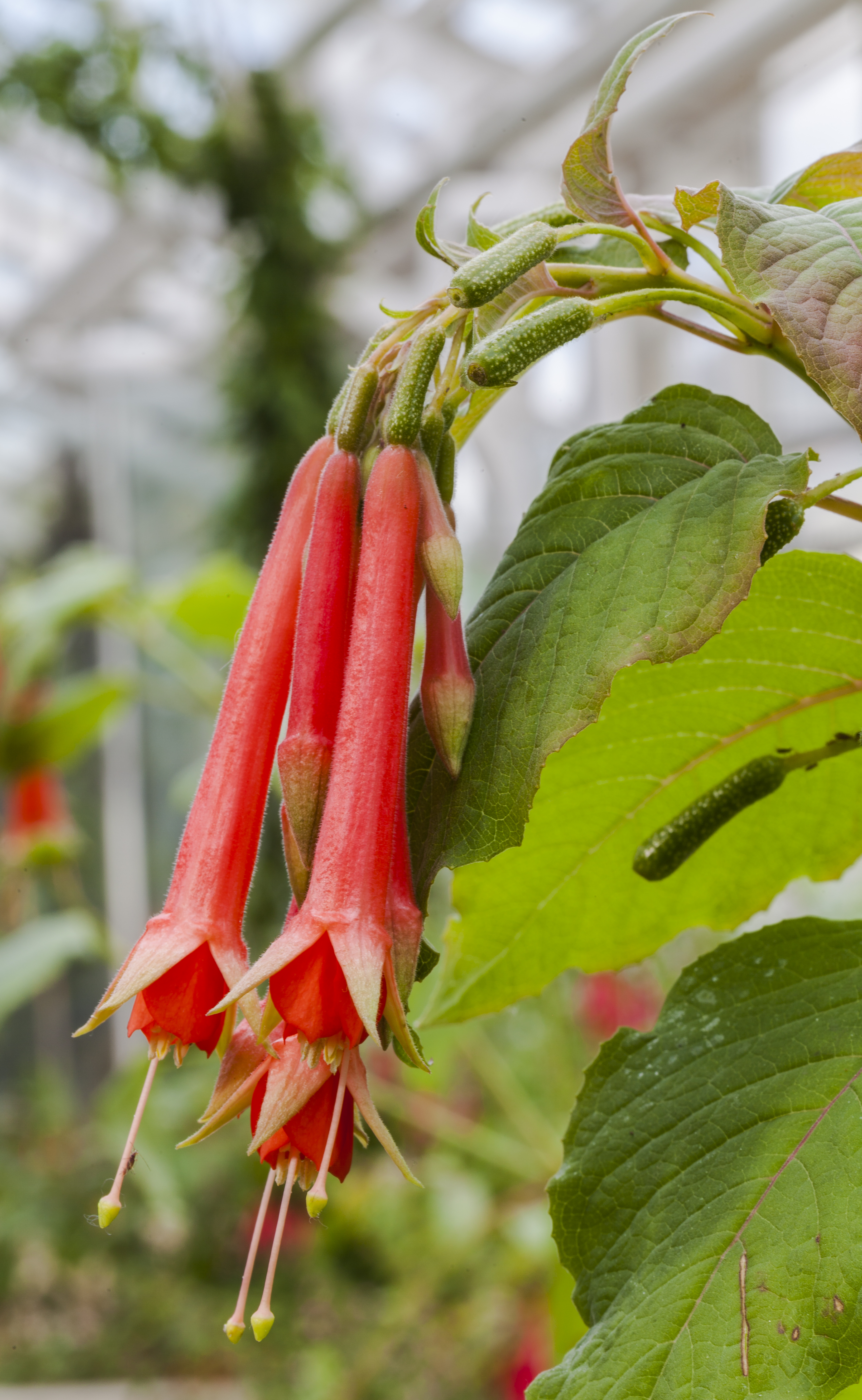 Fuchsia fulgens, Munich Botanical Garden, Germany